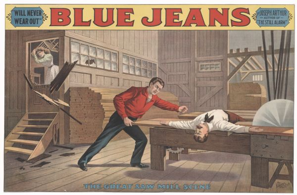 Color lithograph poster for "Blue Jeans," 1890.